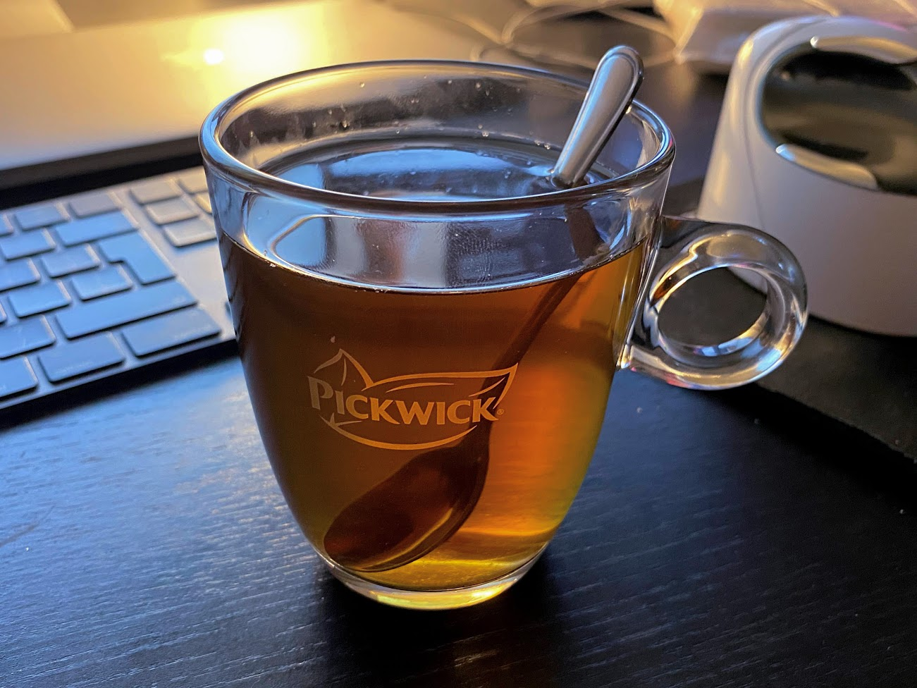 Pickwick tea cup